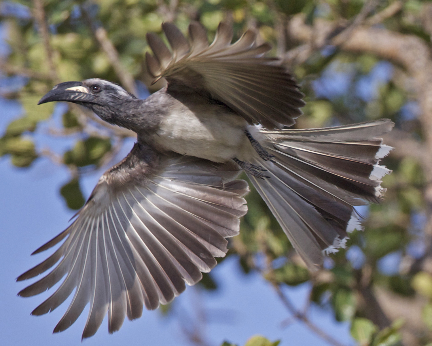 African grey hornbill (Tockus nasutus). Central Serengeti, Tanzania. CF2P4080